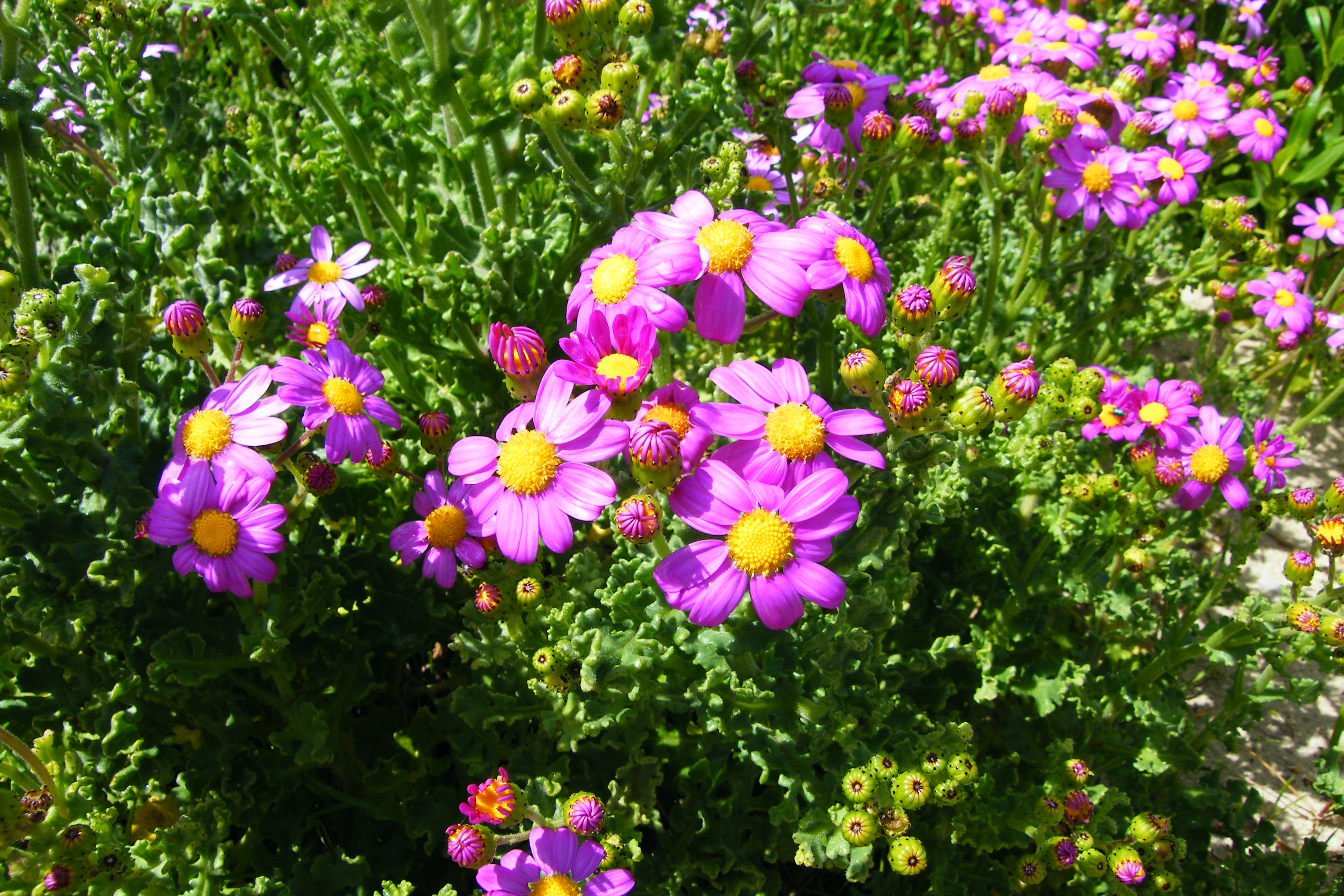 Veld cineraria